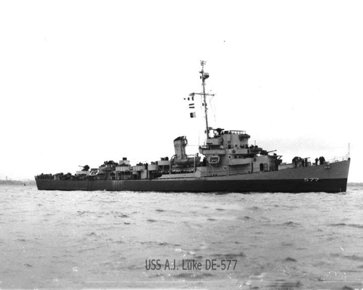 The U.S. Navy destroyer escort USS Alexander J. Luke (DE-577) underway, circa in 1944.Note: The pennant number on the bow seems to have been added to the photo.